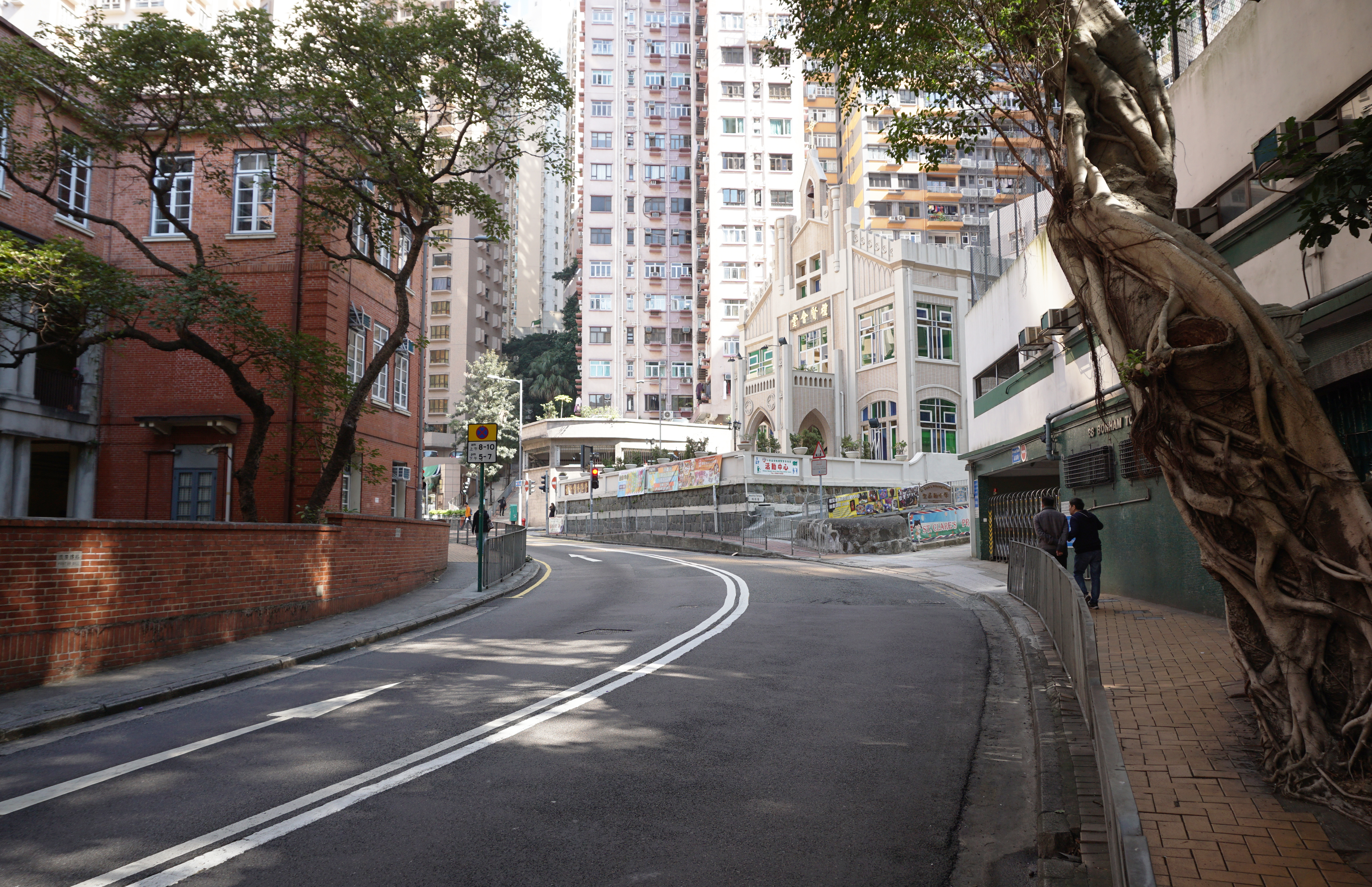 Bonham Road in Sai Ying Pun, Hong Kong.